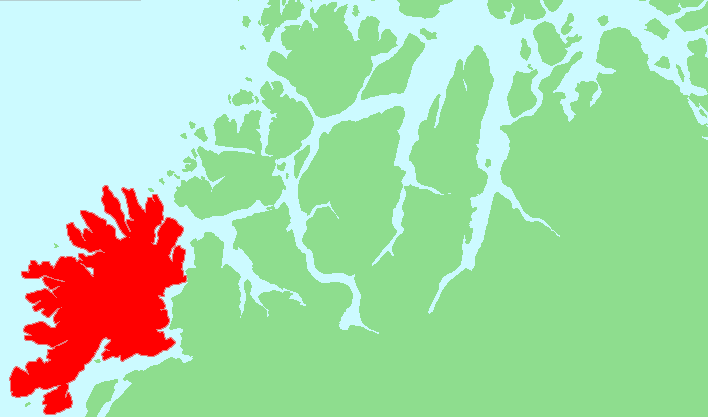 Locator map of Senja, Troms, Norway